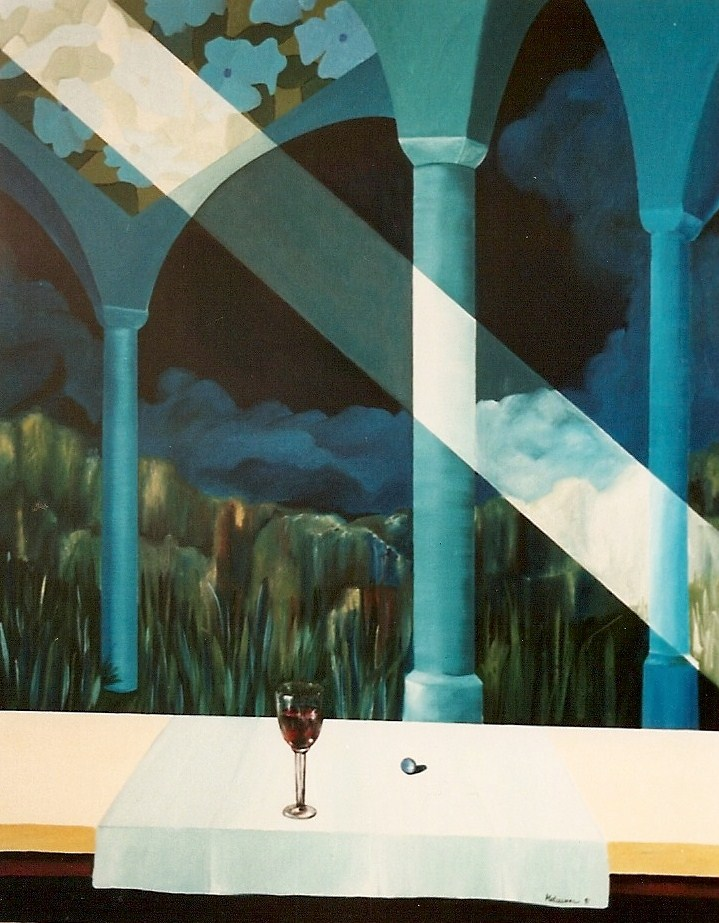 Oplontis-Painting by Ksenia Milicevic